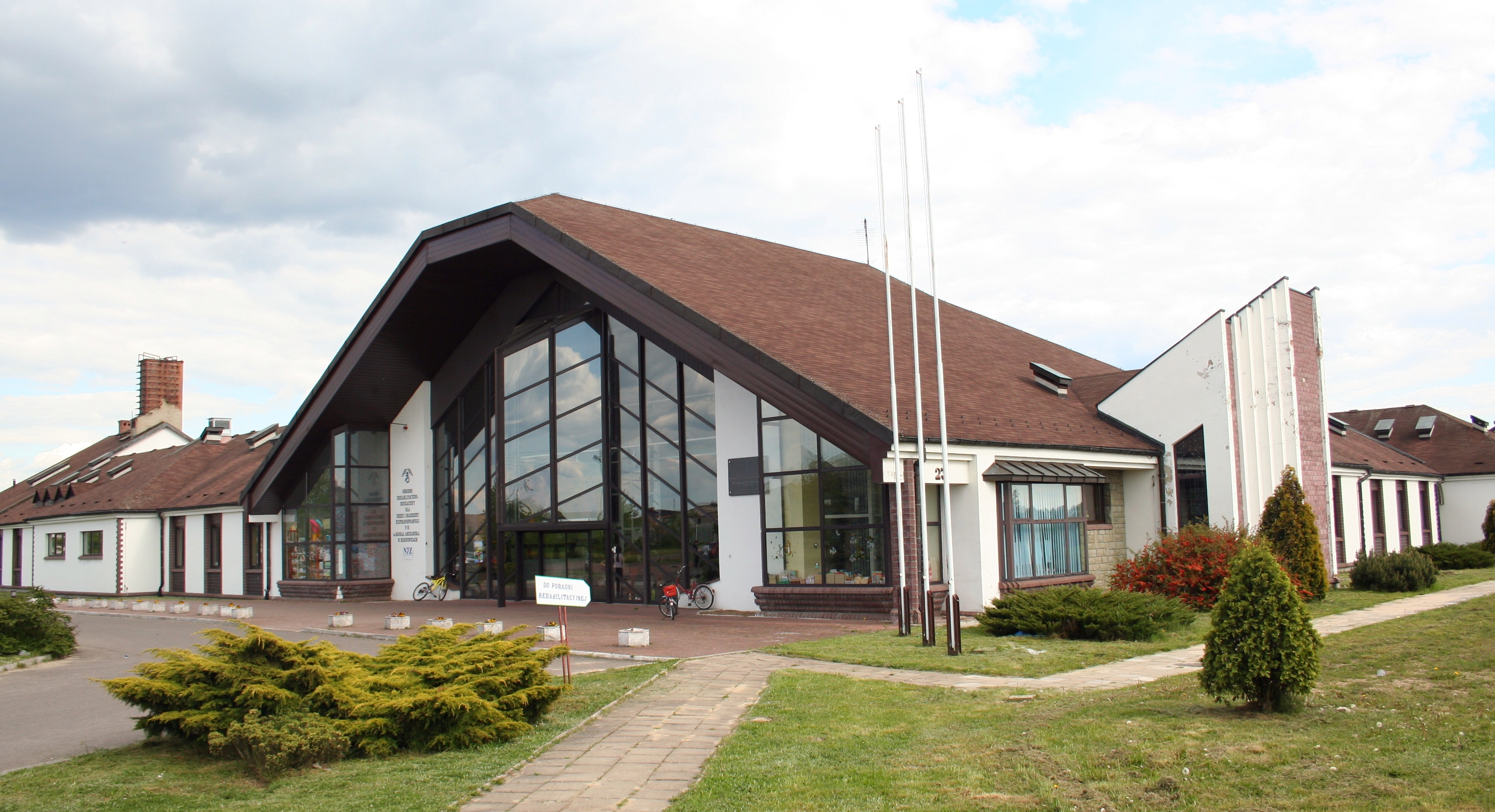 Centrum of physical medicine and rehabilitation in Rusinowice, Poland